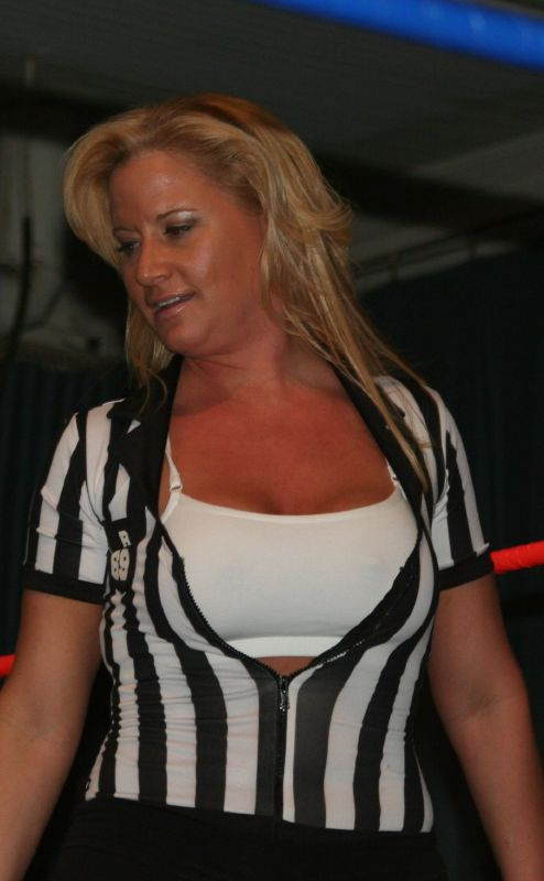 Professional wrestler Tammy Lynn Sytch at a 2CW show on April 11, 2009